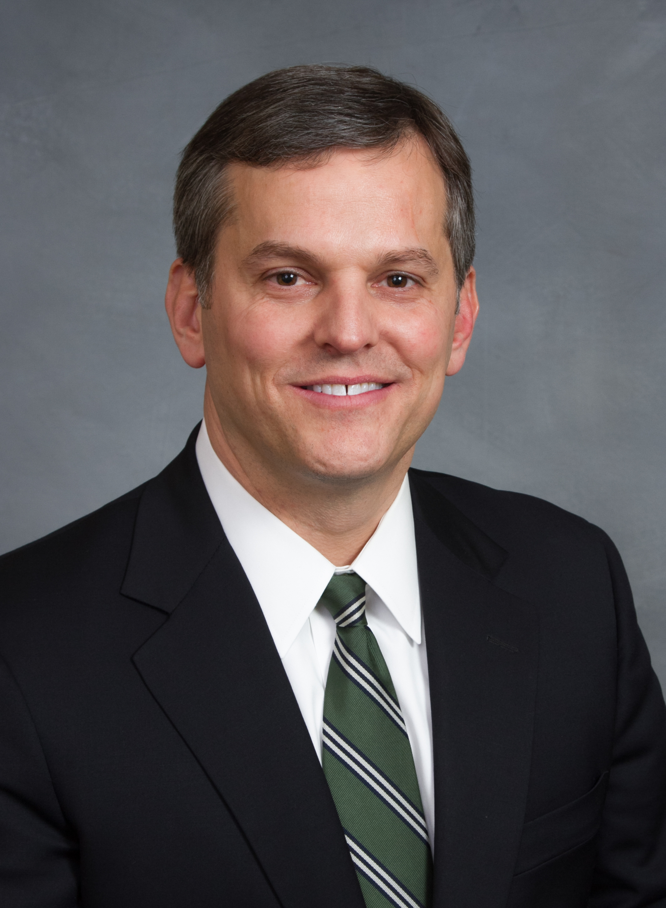 North Carolina State Senator Josh Stein.